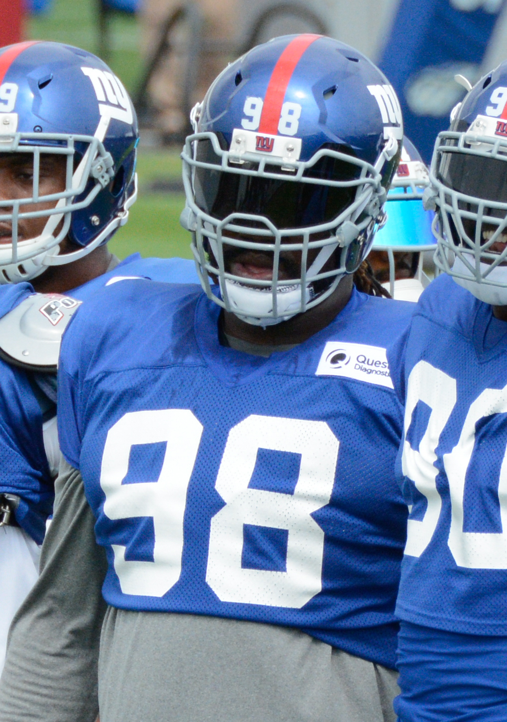 New York Giants training camp